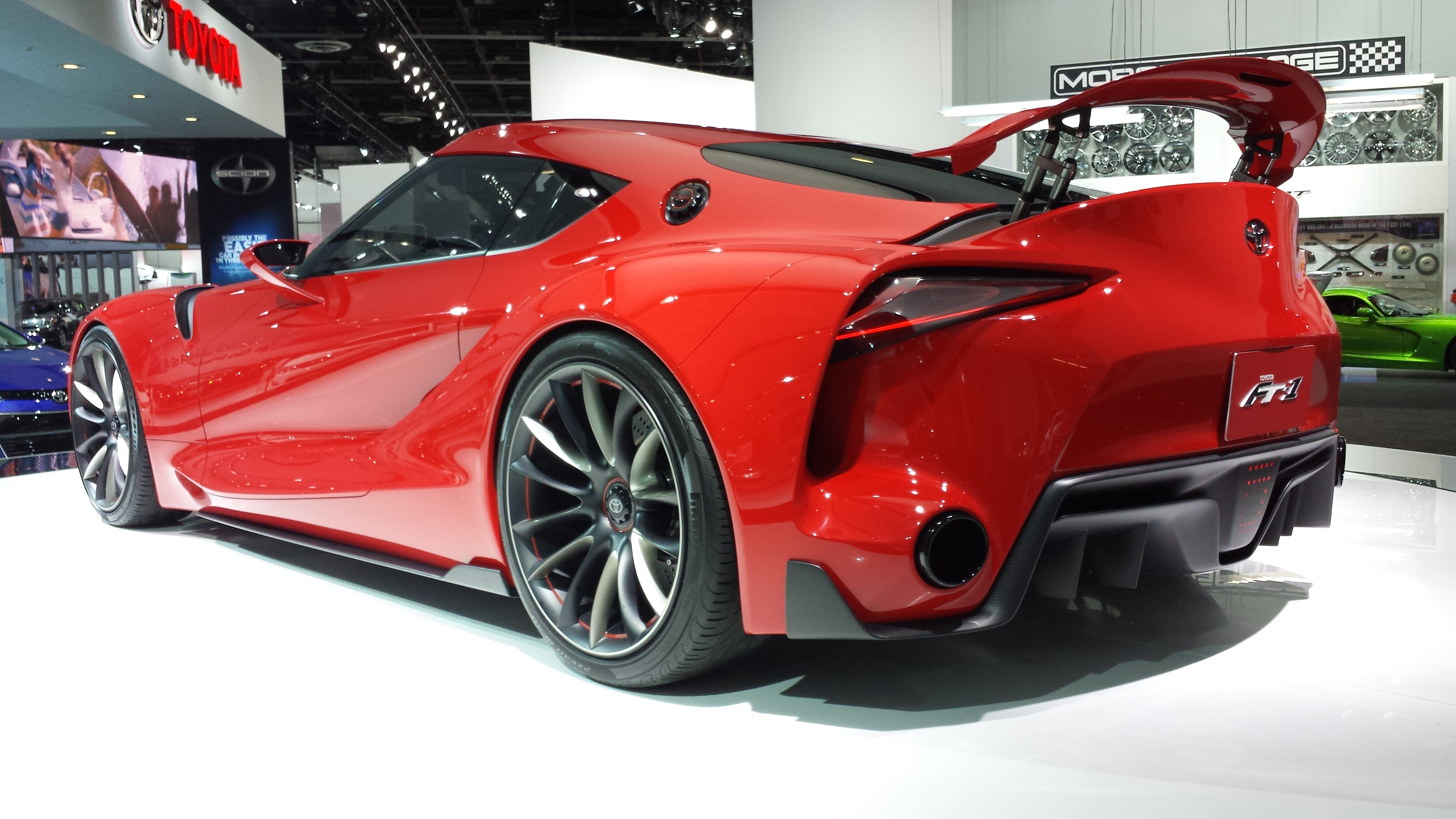 the FT-1 Concept is the ultimate expression of a Toyota coupe design, building upon Toyota’s rich sports coupe heritage dating back to the 2000GT, Celica, Supra, MR2 and most recently Scion FR-S.